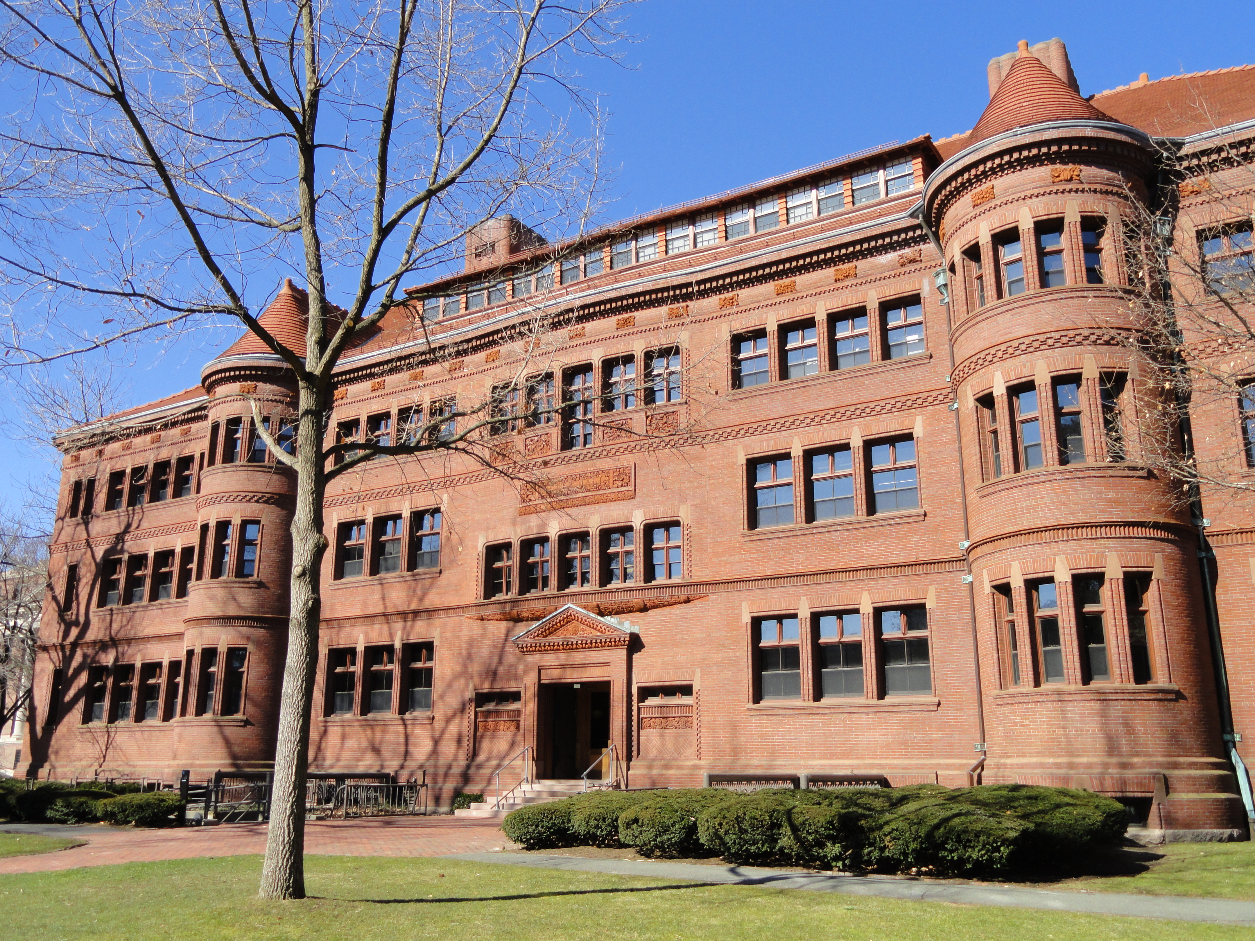 Sever Hall, Harvard University, Cambridge, Massachusetts, USA.